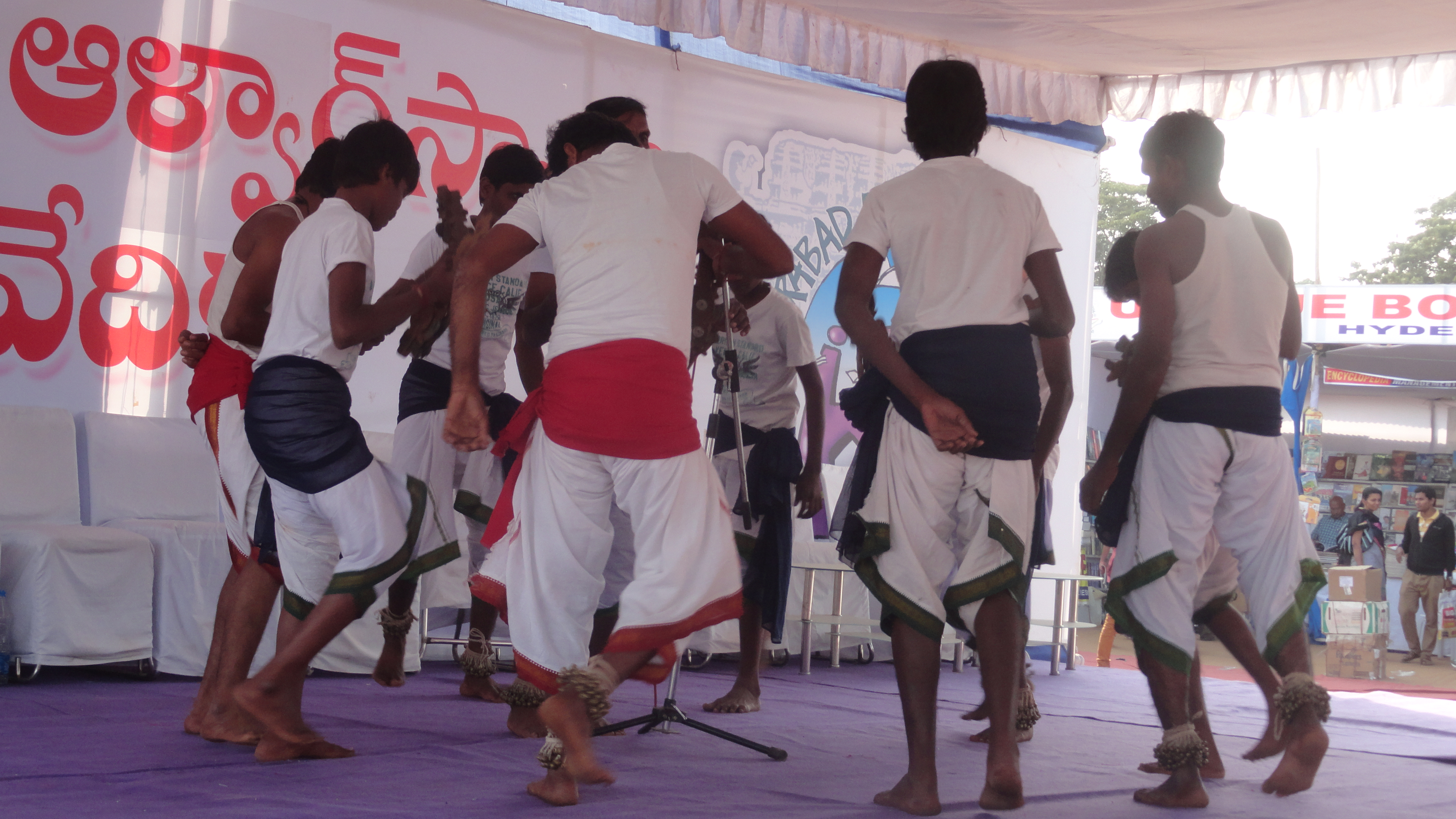 Devotional dance at HYD book fair